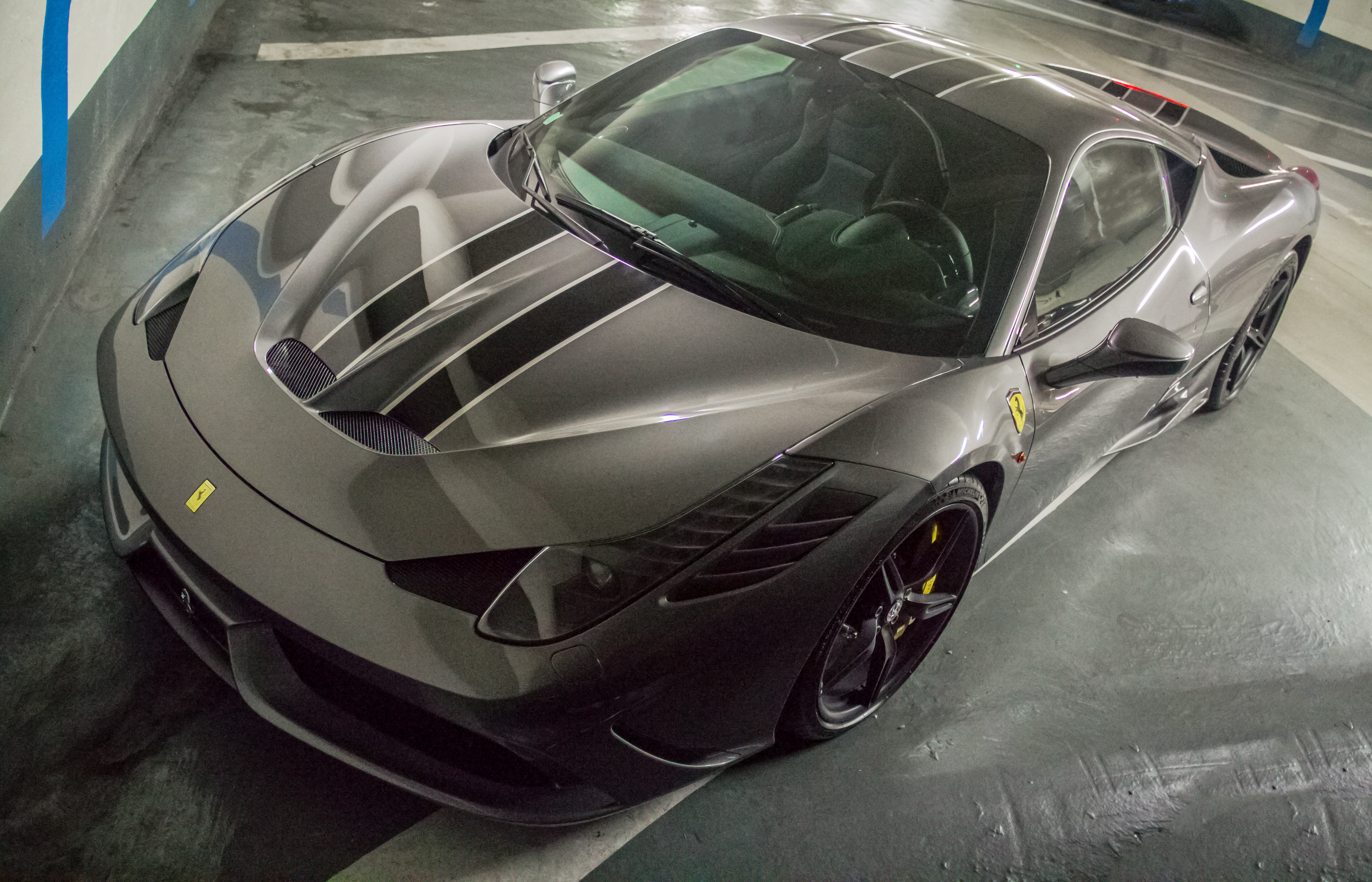 Grey Speciale